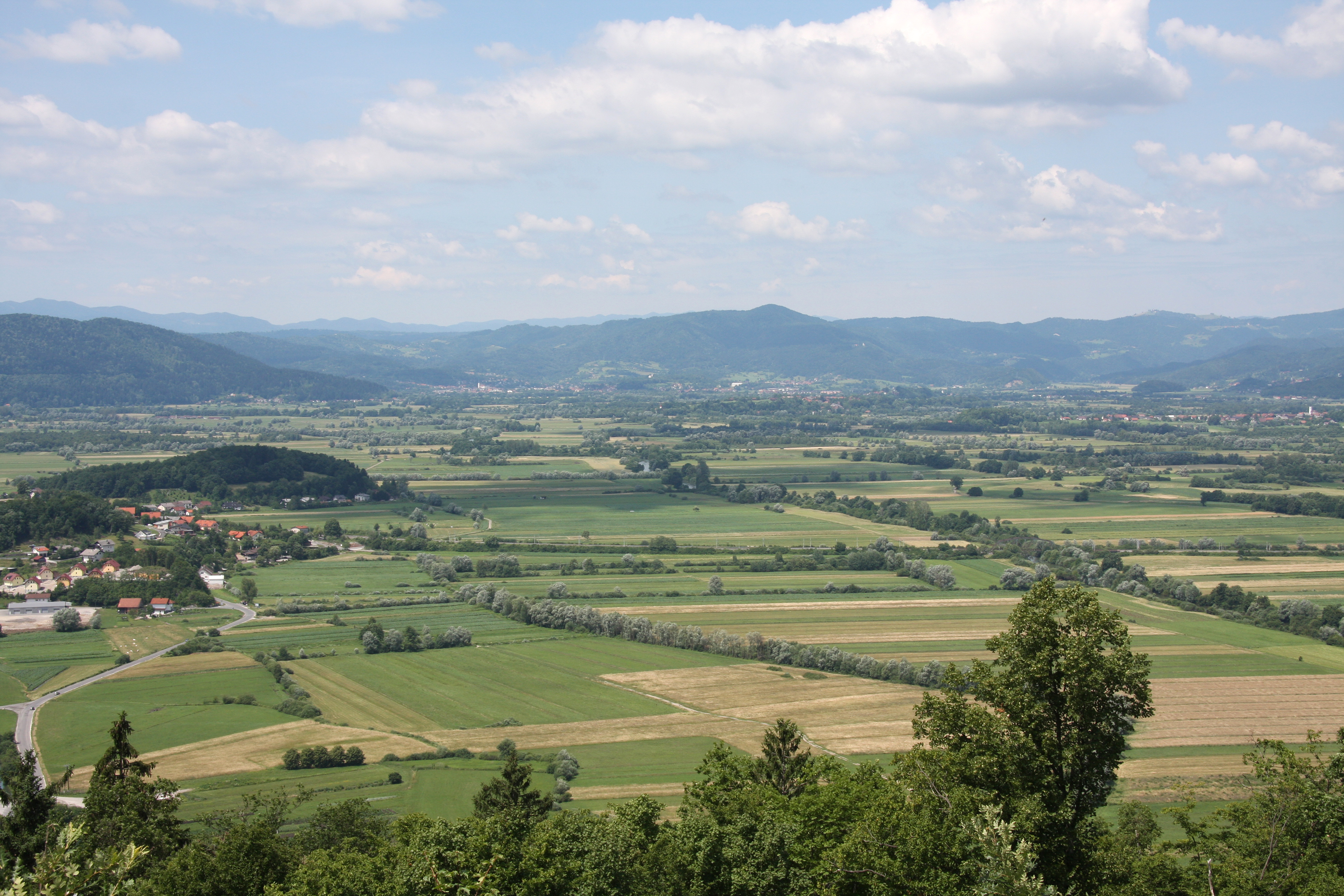 Western part of Ljubljana marsh (central Slovenia). Picture taken from St. Anne hill near Podpeč, Brezovica municipality.